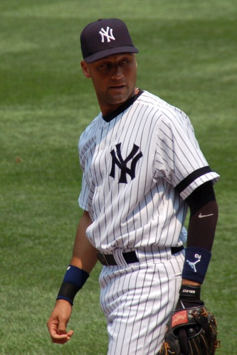 Derek Jeter of the New York Yankees, at Yankee Stadium on August 3, 2007